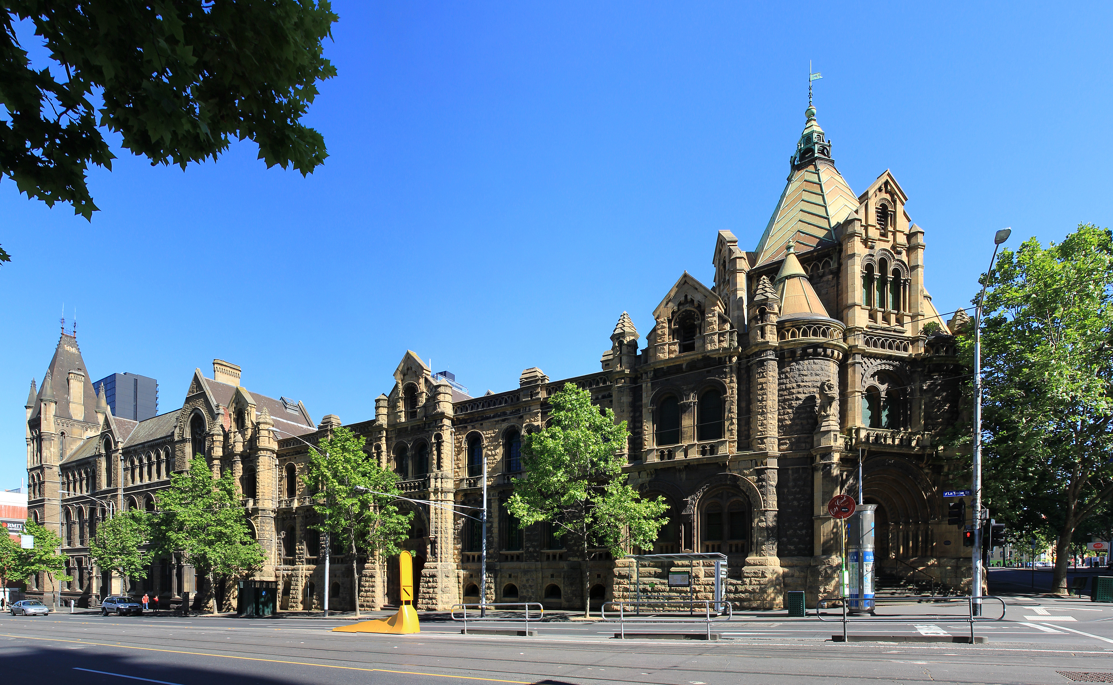 RMIT (Royal Melbourne Institute of Technology) University City Campus - Francis Ormond Building (Completed 1886)